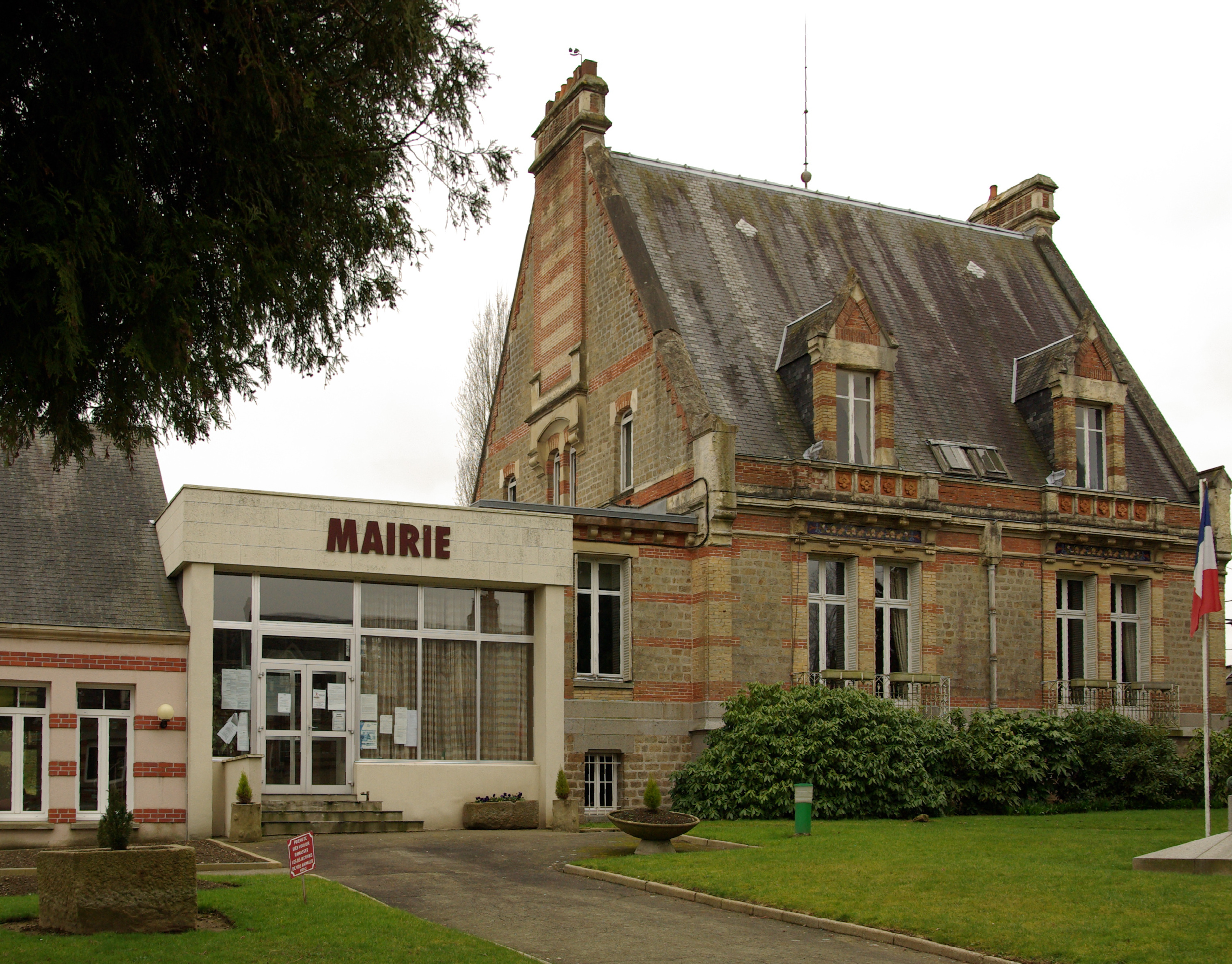 The town hall of Tinchebray